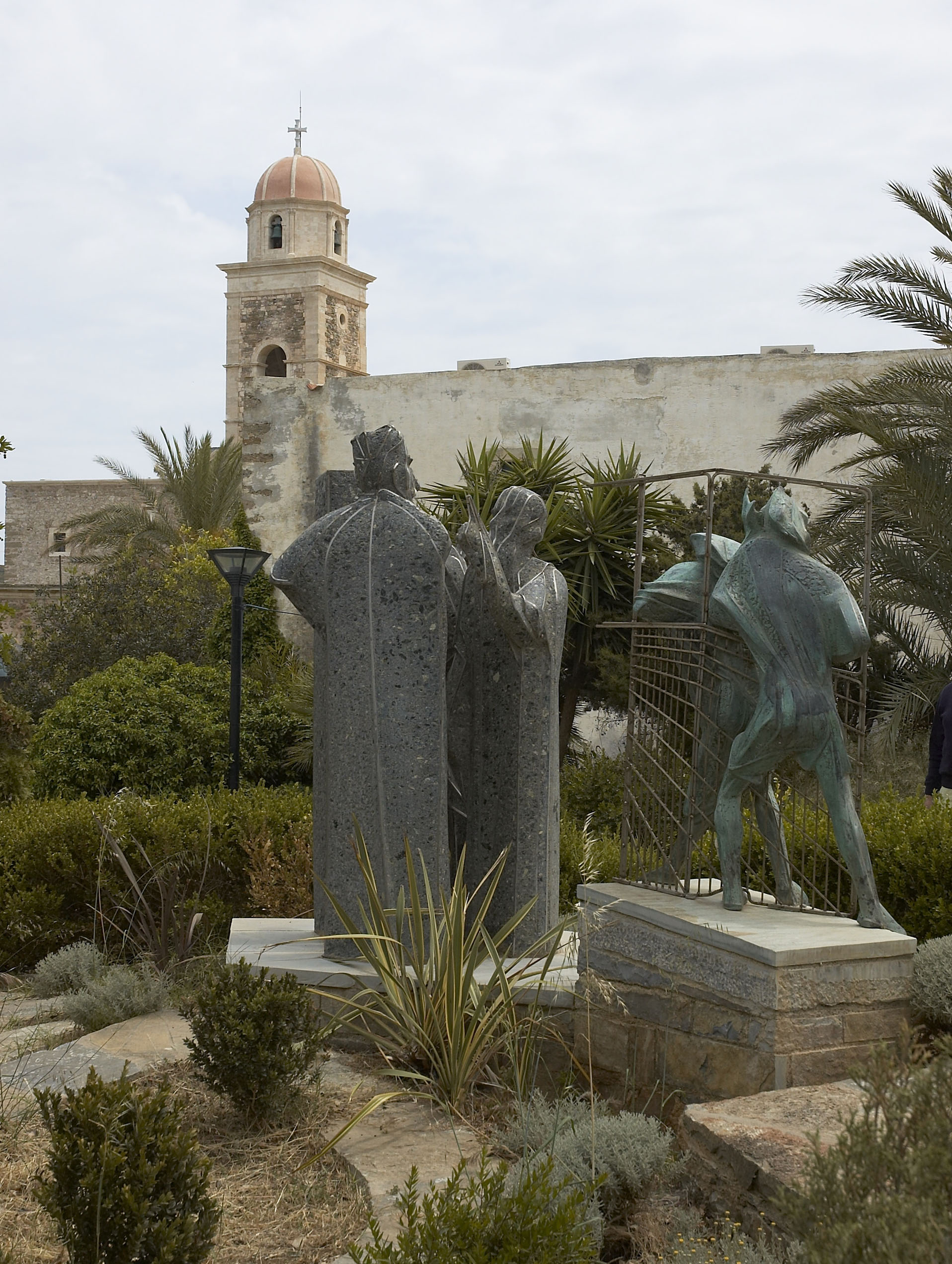 Moni Toplou